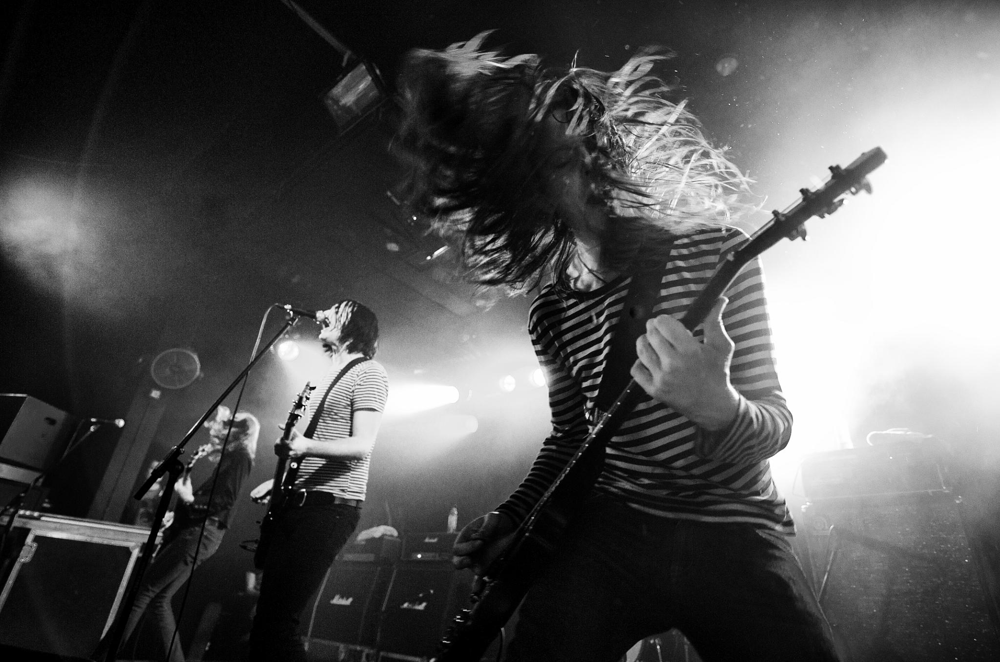 The Datsuns